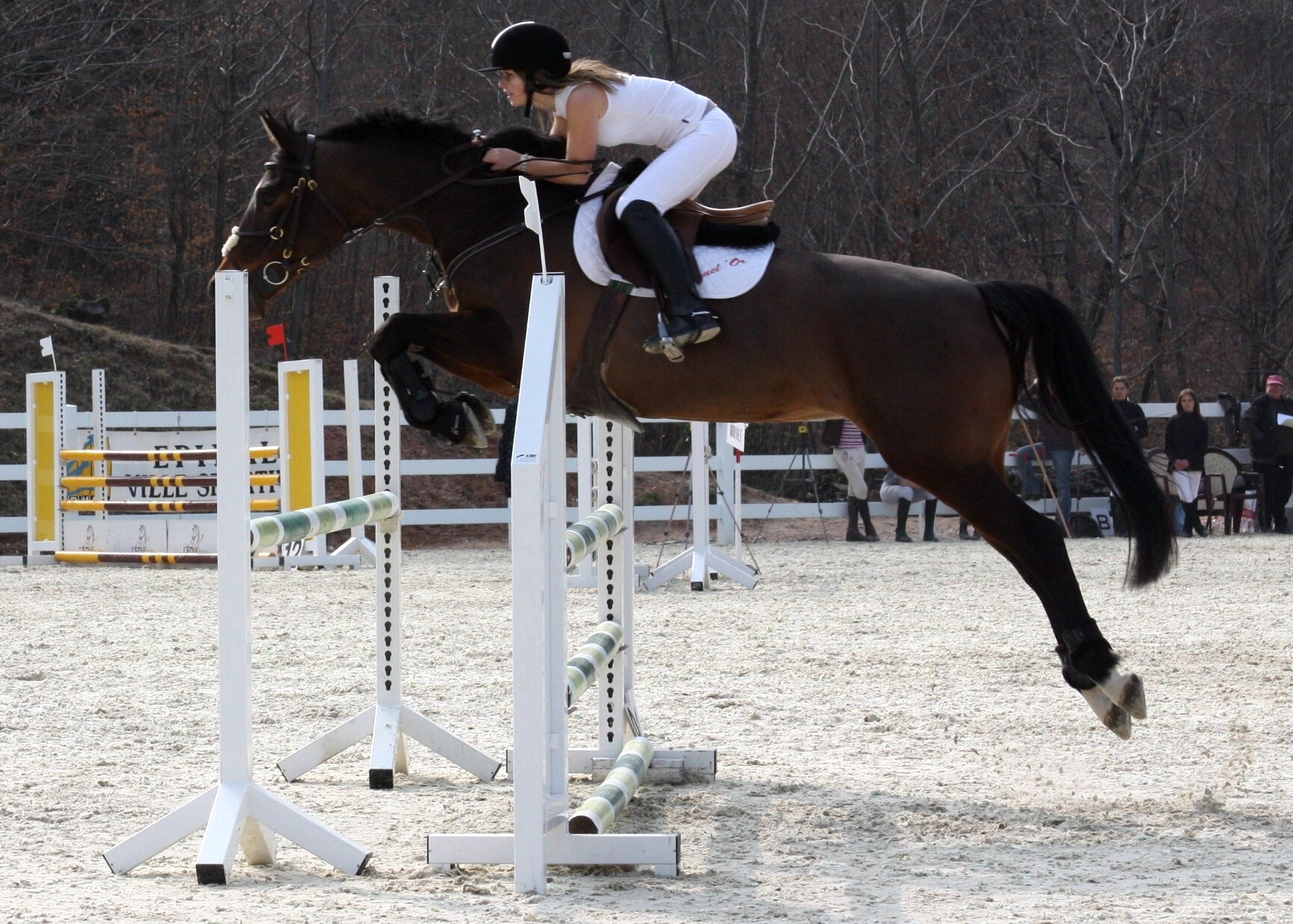 Iguel'or, anglo-arabian mare, during a jumping event, Chantraine, France